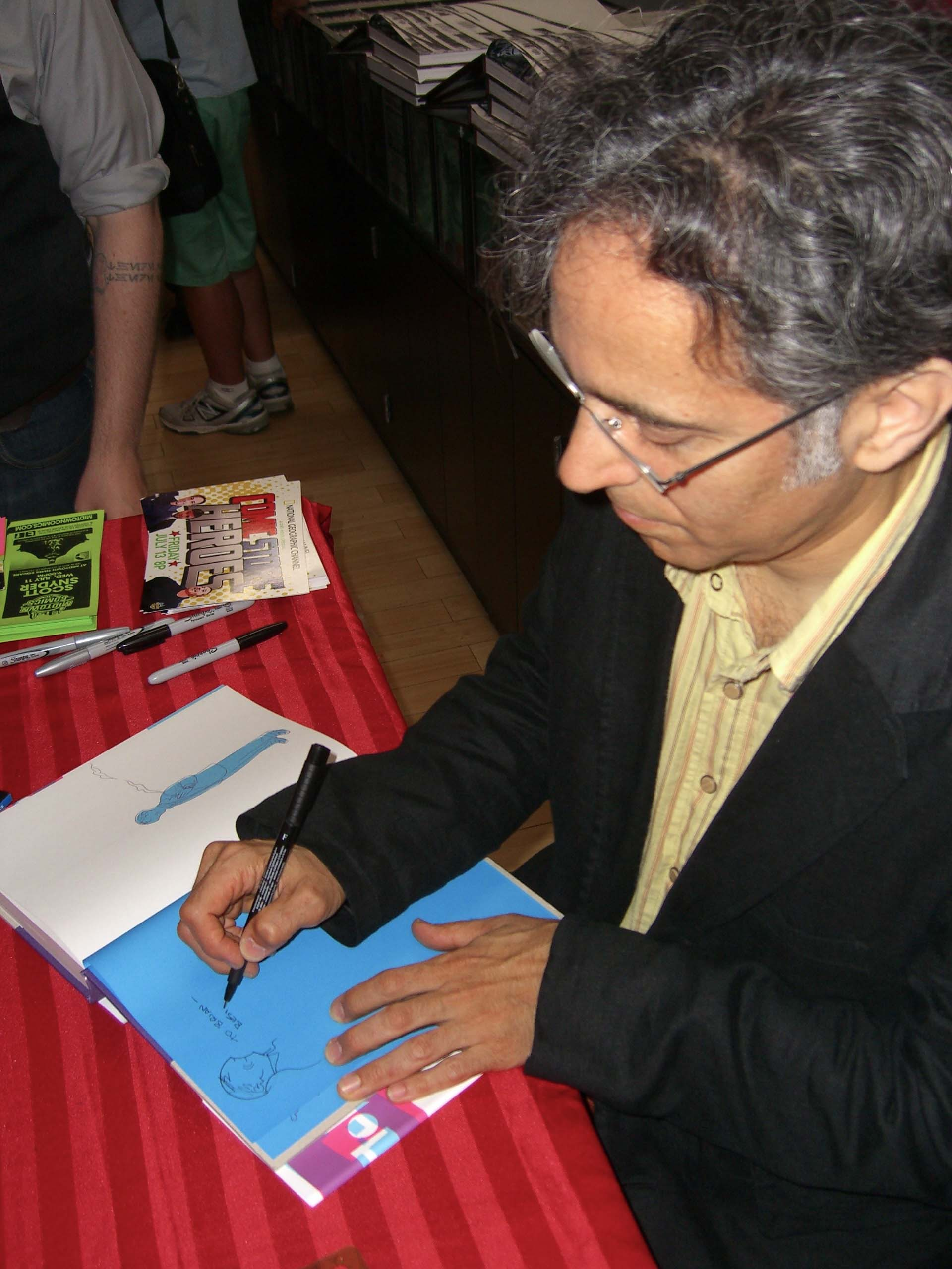 Comic book creator David Mazzucchelli at a June 28, 2012 signing for Daredevil Born Again: Artist's Edition at Midtown Comics Downtown in Manhattan. In the photo, Mazzucchelli is sketching the titular character in a fan's copy of his 2009 graphic novel, Asterios Polyp. This photo was created by Luigi Novi. It is not in the public domain, and use of this file outside of the licensing terms is a copyright violation.